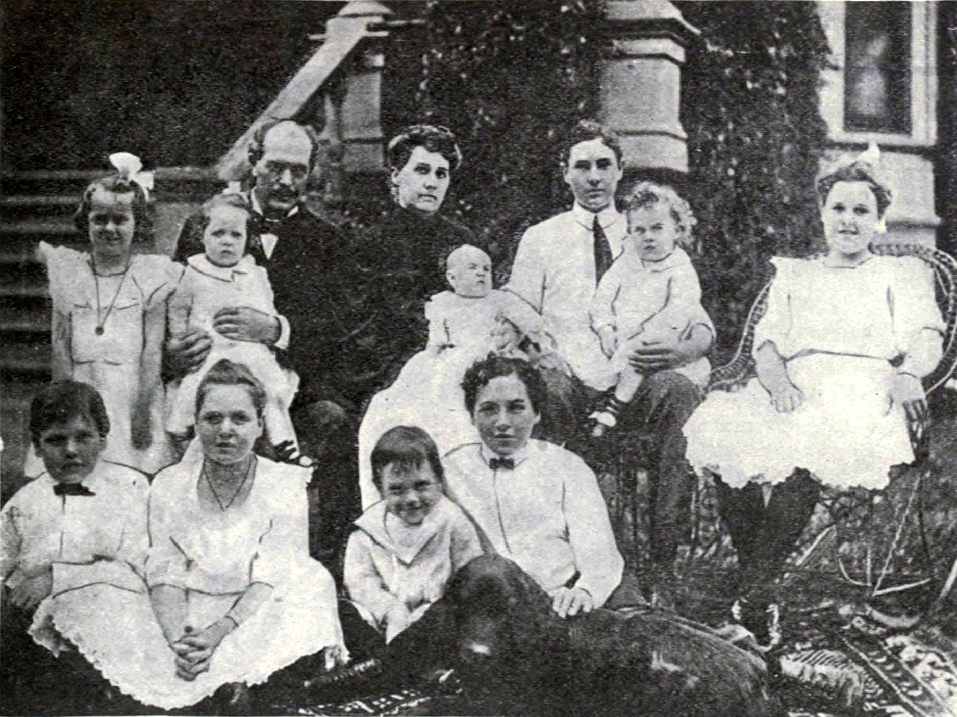 Judge Edward F. Dunne, Mayor of Chicago, and his big family of healthy, happy children